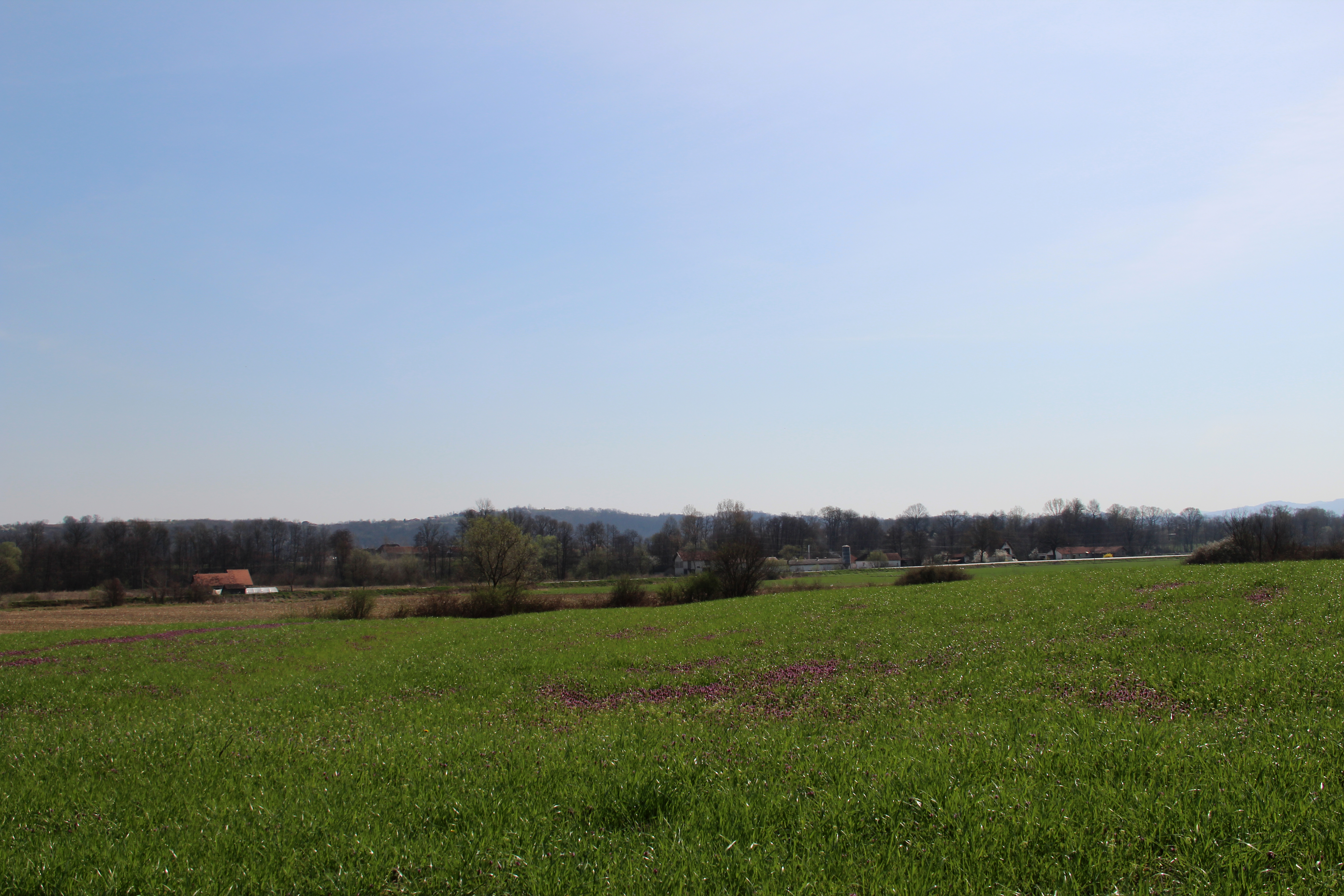 Radobic village - Municipality of Valjevo - Western Serbia - panorama - Kolubara River Valley 3